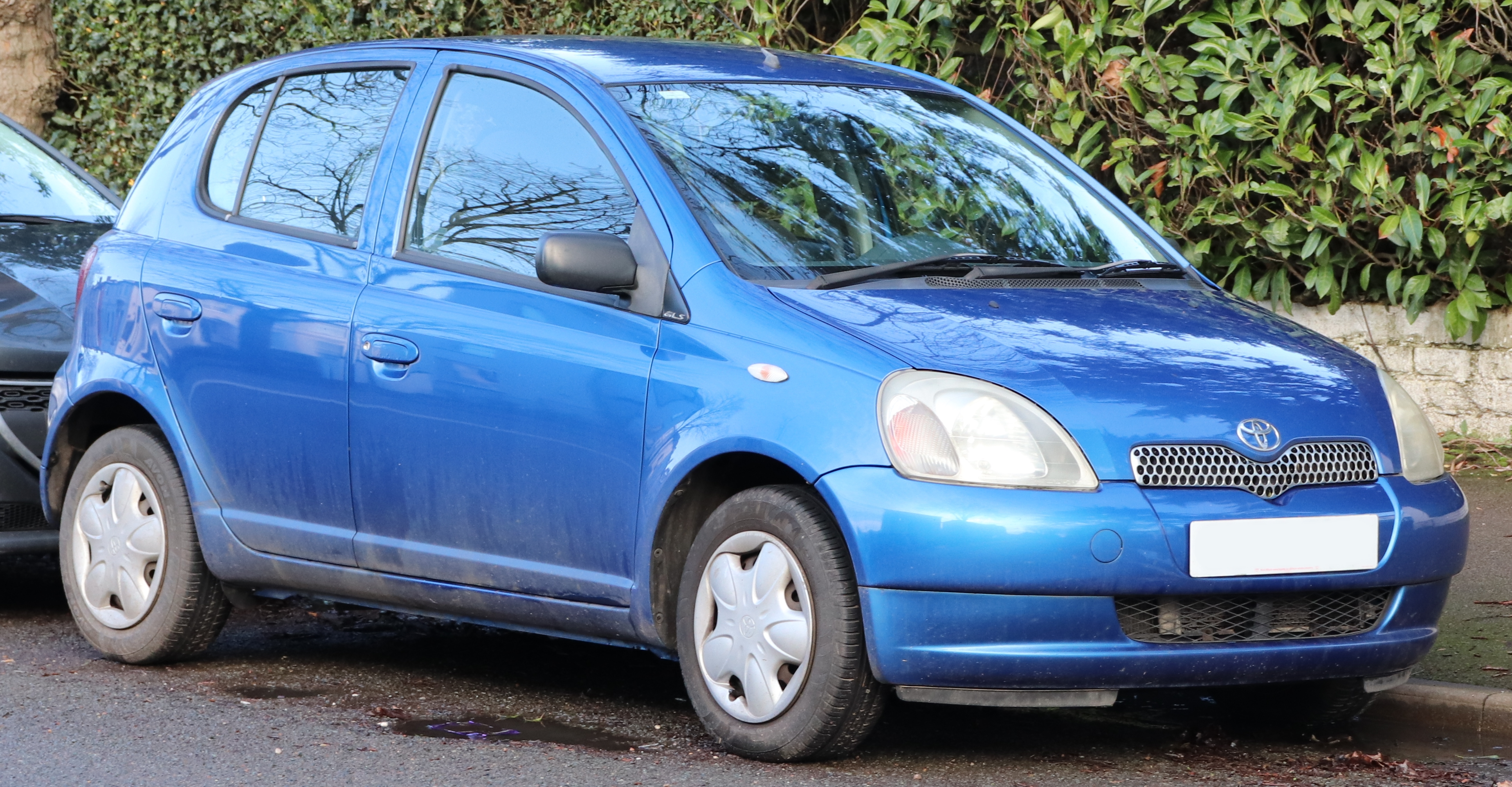 2002 Toyota Yaris GLS D-4d 1.4 Taken in Leamington Spa